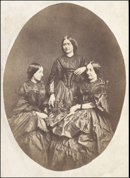 Ternan sisters - a carte d visite Maria Ellen and Frances - the daughters of Eleanor Ternan nee Jarman. est 1870??